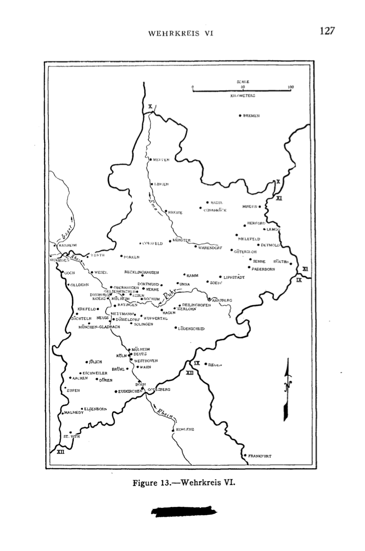 Map of the Wehrkreis, Military District, VI.